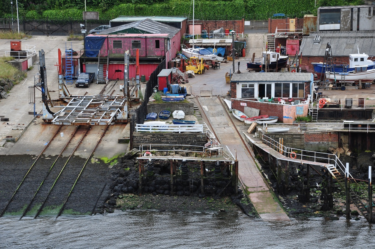 A harbour scene in South Shields with slipways (South Tyneside, Tyne and Wear, England, United Kingdom)